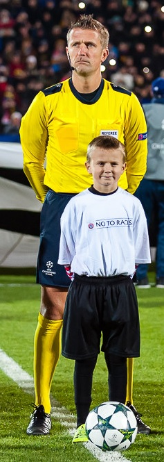 Daniele Orsato before the Champions League game between FC Rostov and Atlético Madrid.